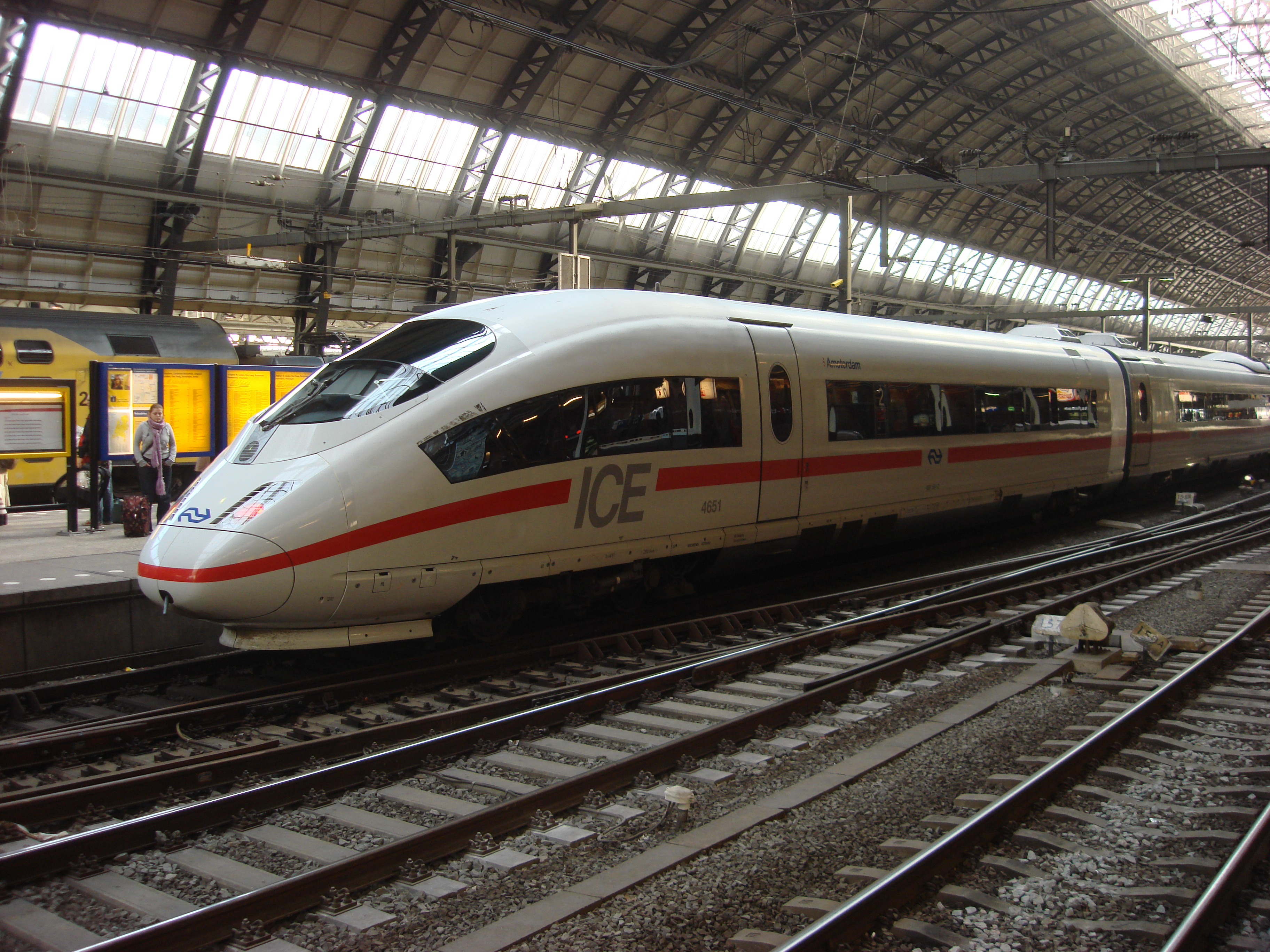 Nederlandse Spoorwegen or NS(Dutch Railways) InterCityExpress or ICE, Electric multiple unit number 4651 at Amsterdam Centraal railway station